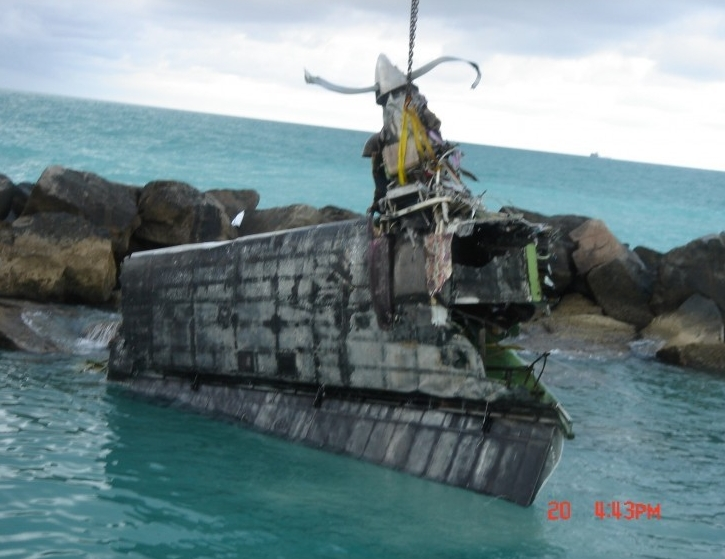 Photo of Grumman G-73T Turbo Mallard N2969